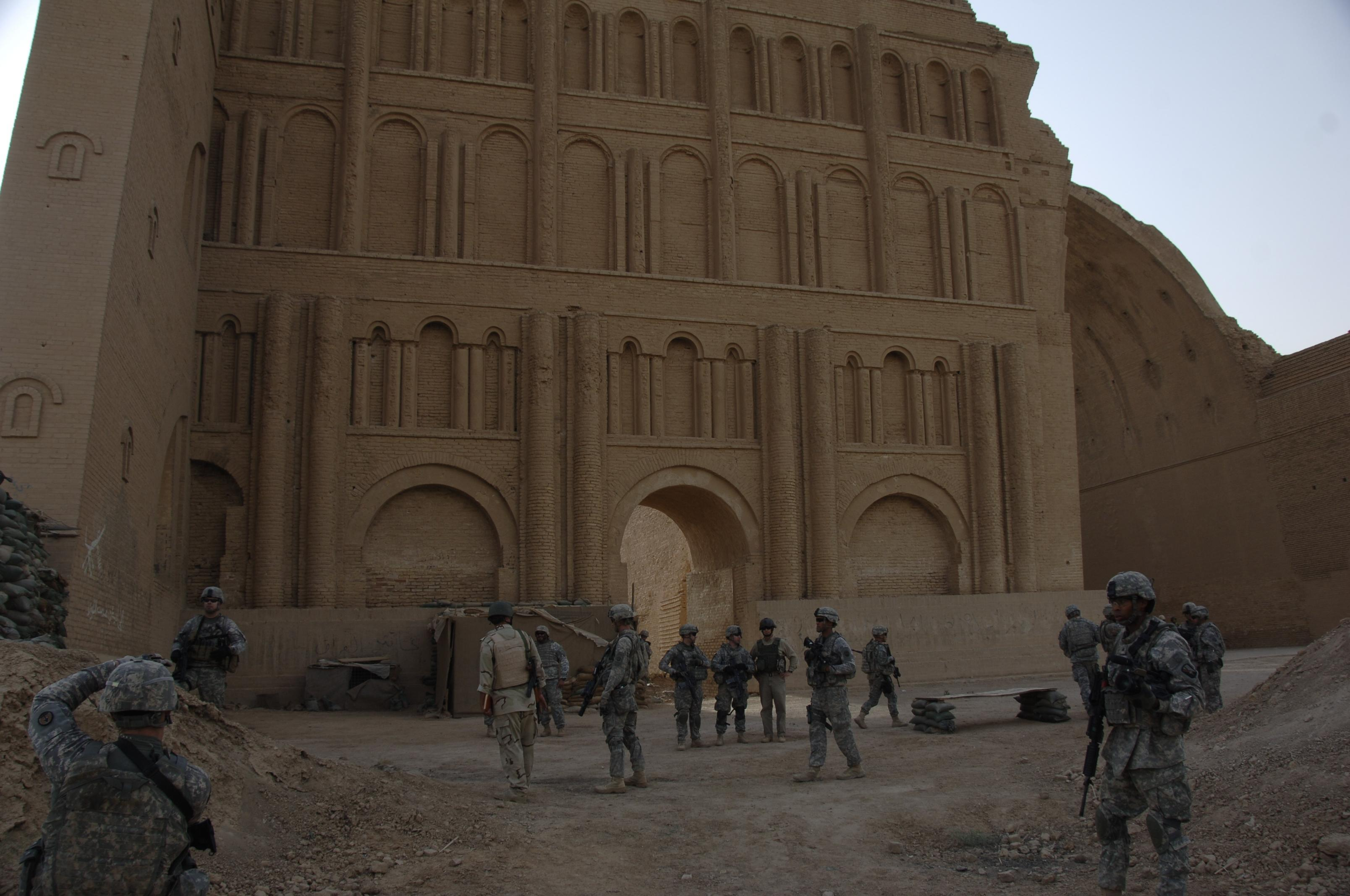 Paratroopers assigned to the 1st Battalion, 505th Parachute Infantry Regiment, 3rd Brigade Combat Team, 82nd Airborne Division, Multi-National Division-Baghdad, and Iraqi Army Soldiers provide security around the Arch of Ctesiphon during a visit by Lt. Gen. Charles Jacoby, the commanding general of Multi-National Corps-Iraq, Aug. 13, in Salman Pak, Iraq.